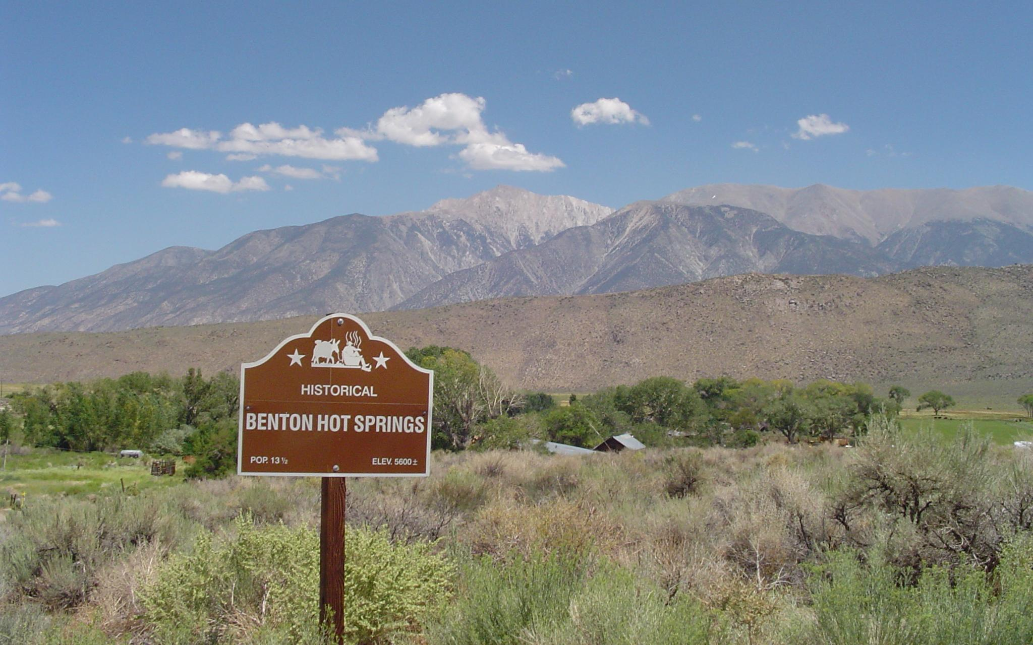 Historical marker sign for Benton Hot Springs, with the Eastern Sierra, in Mono County, California.